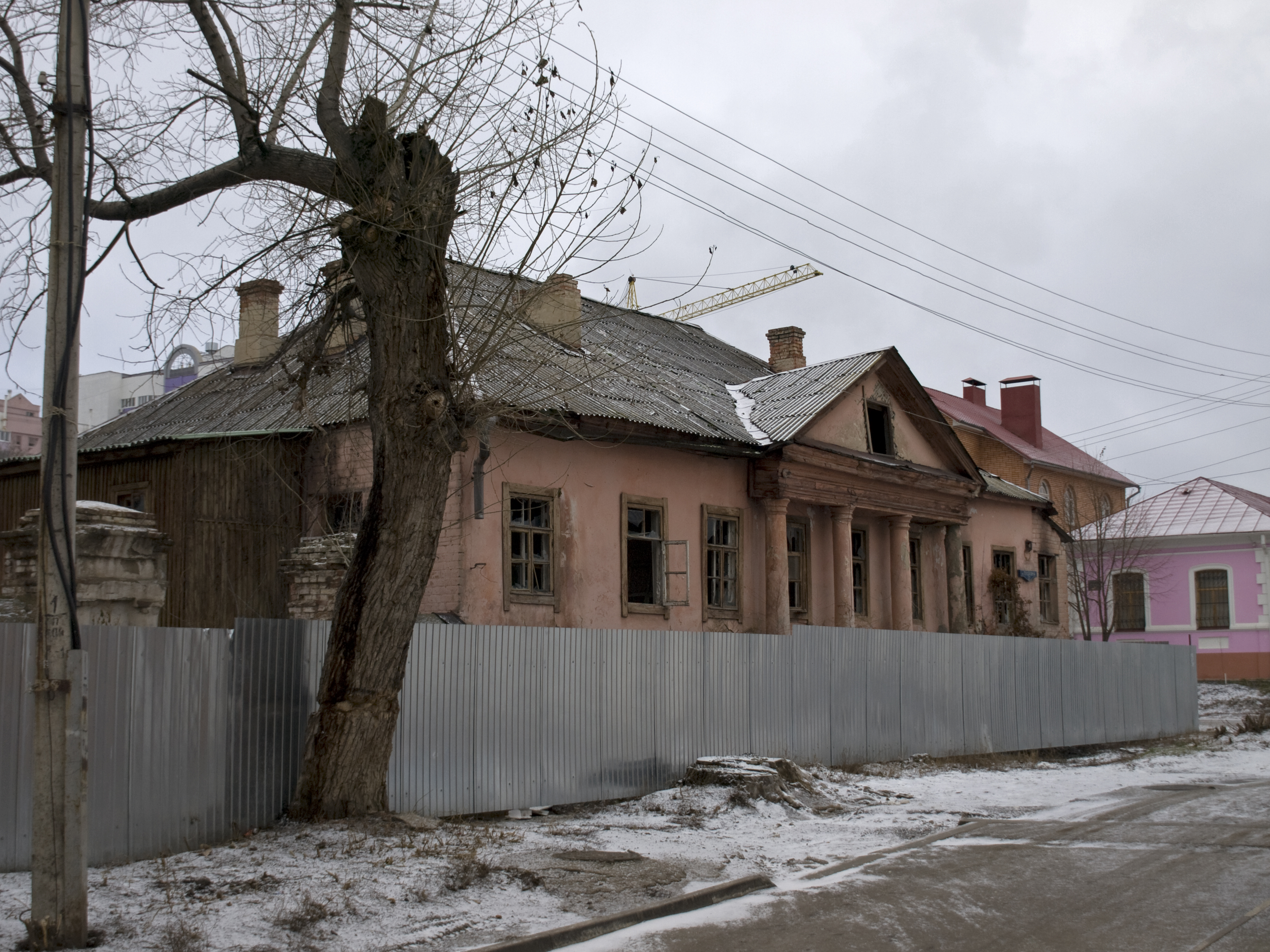 Kurchaninov Estate, Pushkina Street 17a, Belgorod